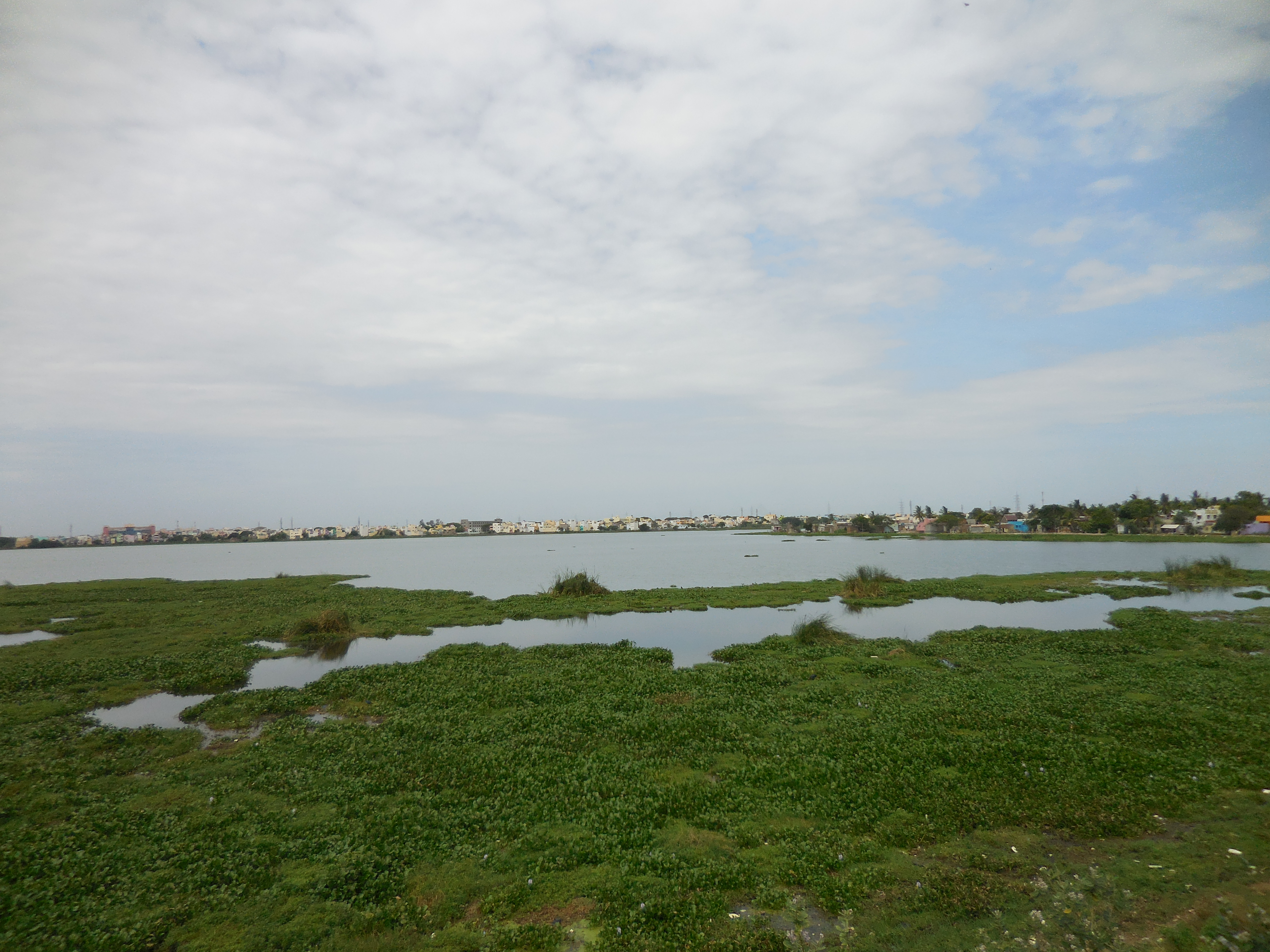 Ambattur lake taken on 5 July 2014, at 10:10 am